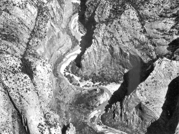 Zion National Park, Utah. Entrenched meanders of the Virgin River at the upper end of Zion Canyon. The walls of Navajo Sandstone rise 1,800 to 2,200 feet above the river. Digital File:ghe01286 ID. Gregory, H.E. 1286 Image uploaded to illustrate article entitled "Entrenched river."